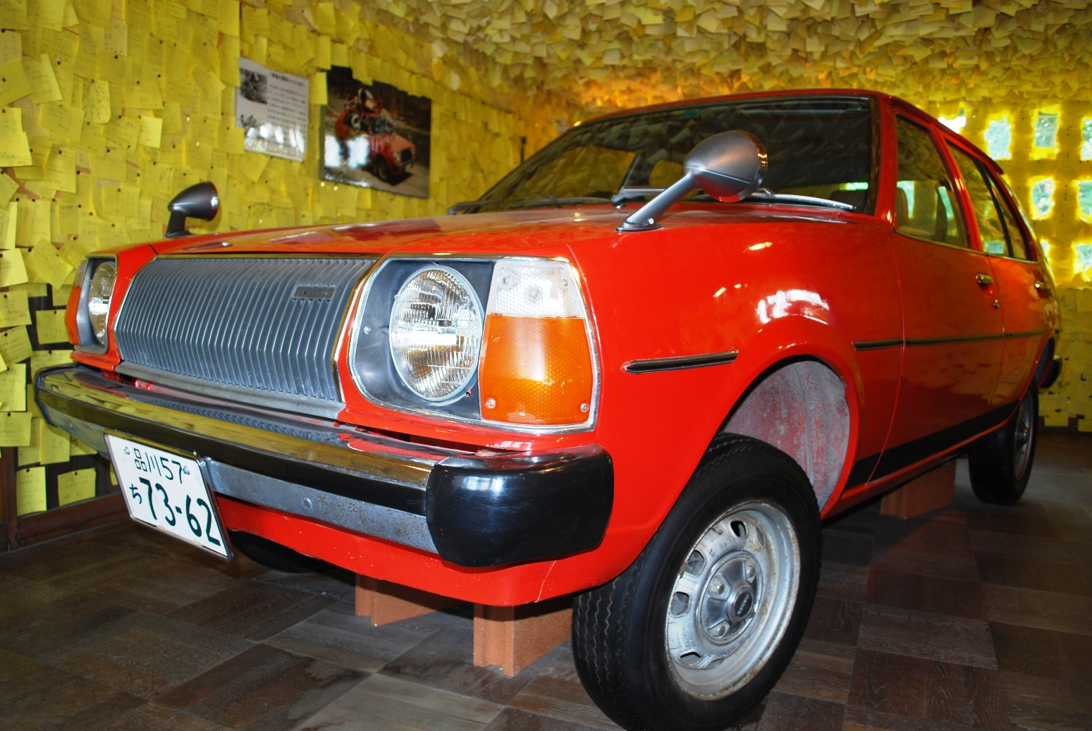 Red Familia of Shiawase no Kiiroi Handkerchief